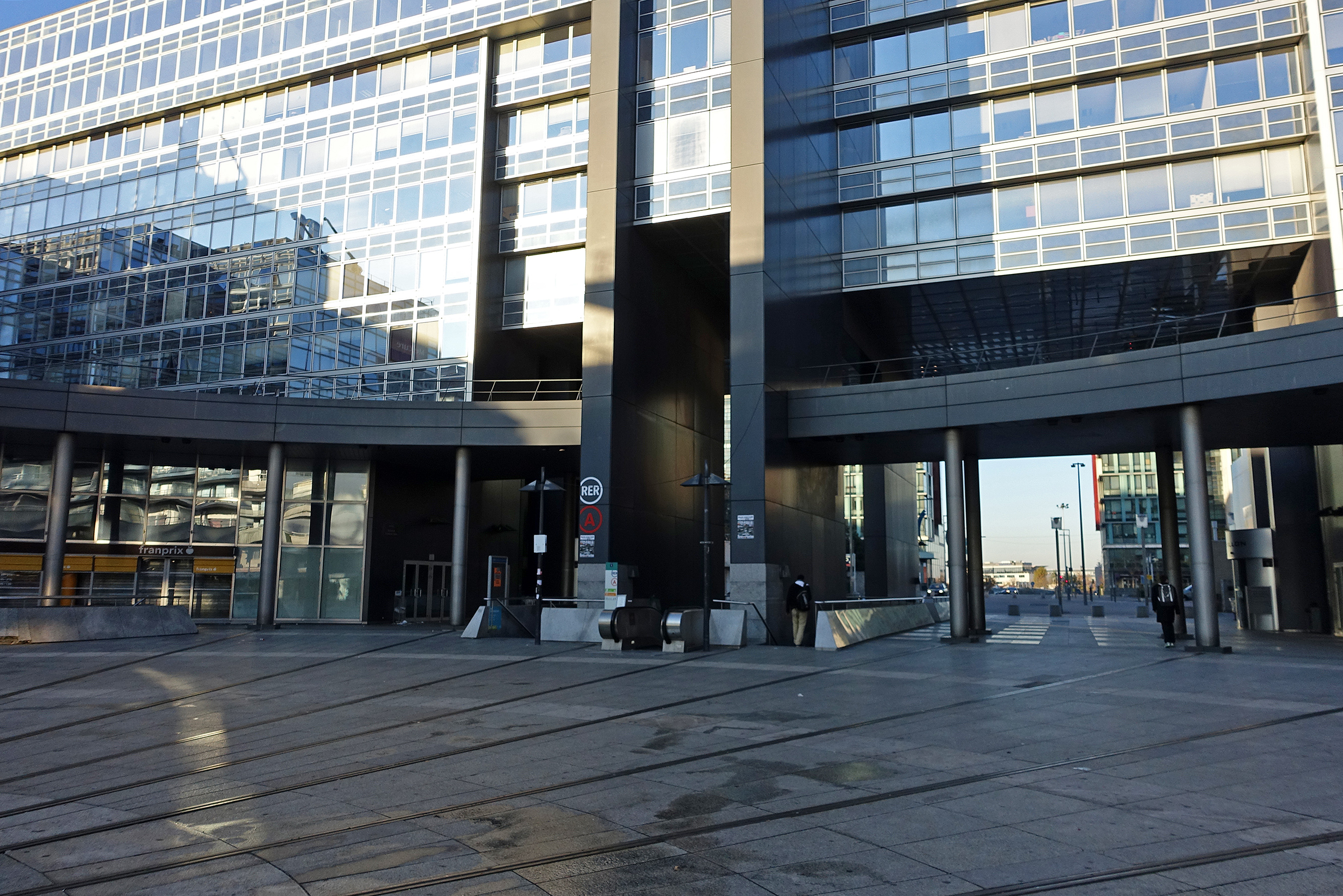 Nanterre-Préfecture station - Carillon exit